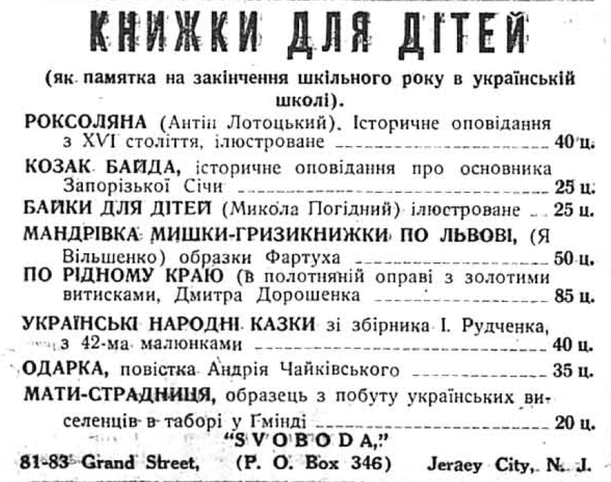 Advertising books for children, the Ukrainian daily newspaper 'Svoboda' (USA), № 210, 10.09.1937